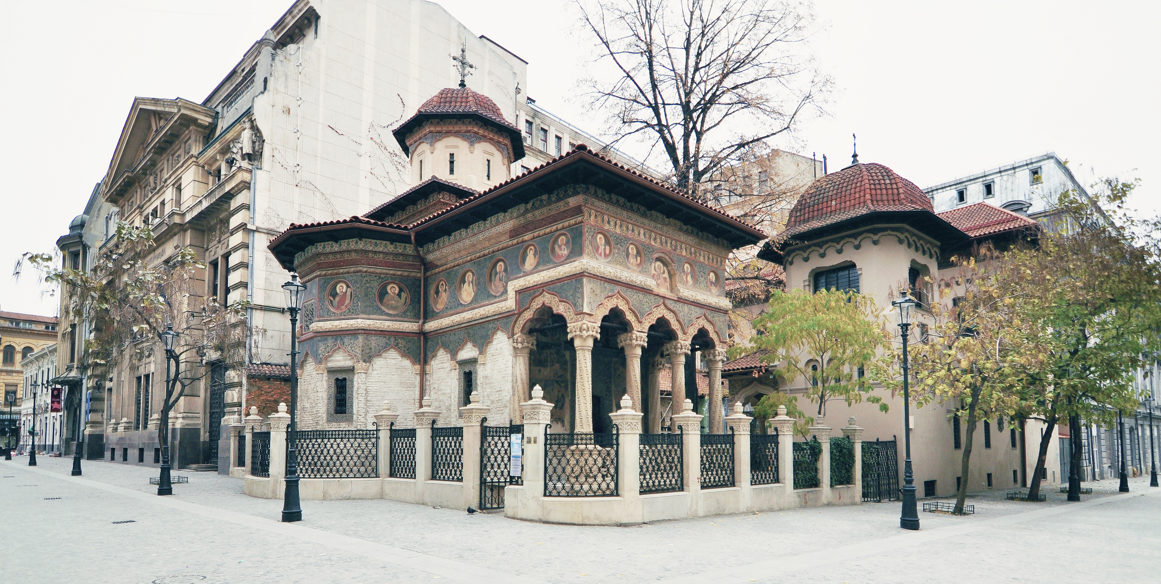 Stavropoleos Monastery, Bucharest, Romania